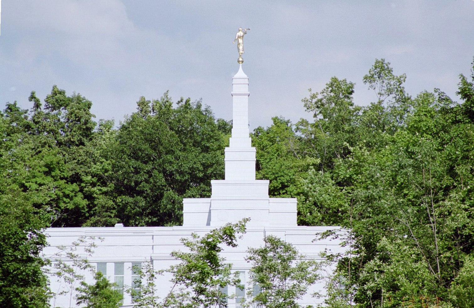 The Palmyra New York Temple of the Church of Jesus Christ of Latter-day Saints